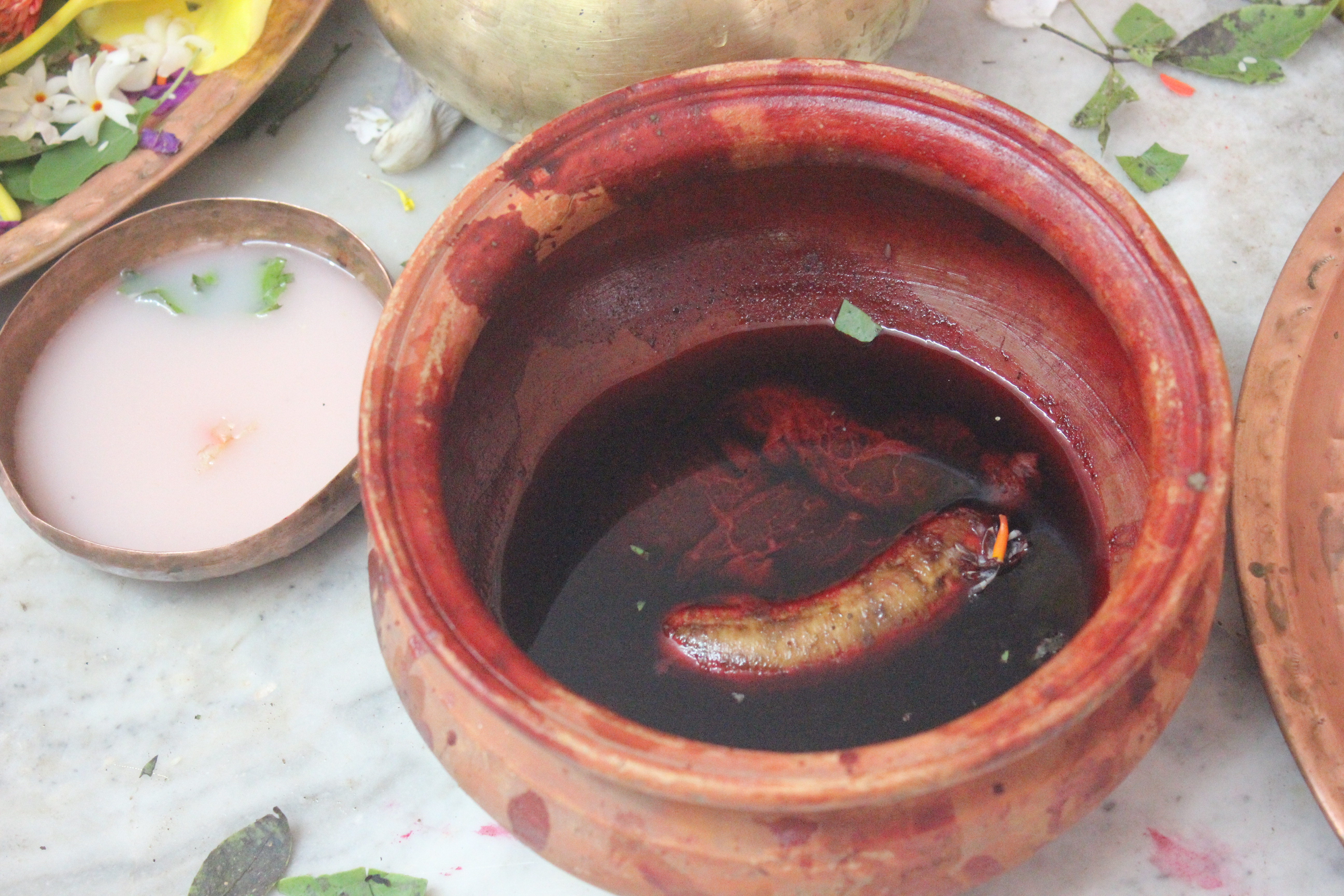 Location: Kalibari Temple, Silchar, Assam